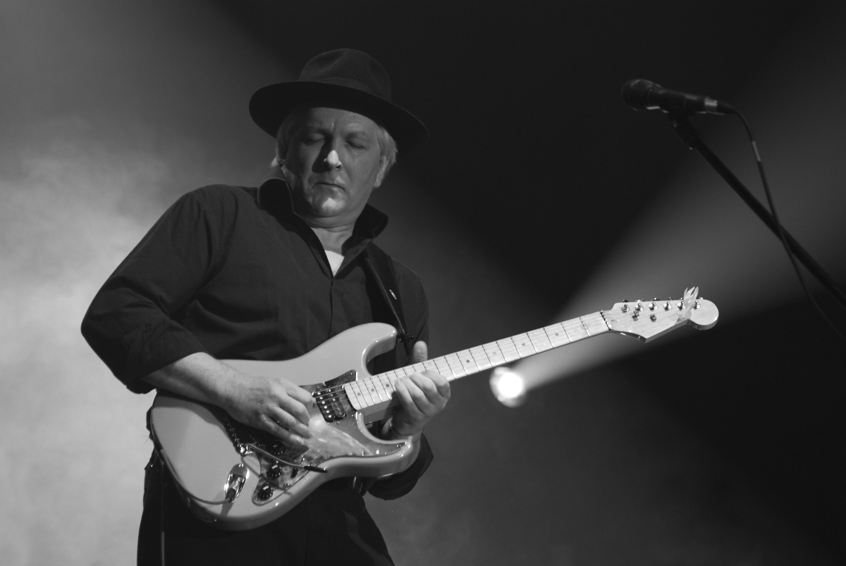 'Mad Dog' Moore from Storm Warning during 27. edition of Rawa Blues Festival